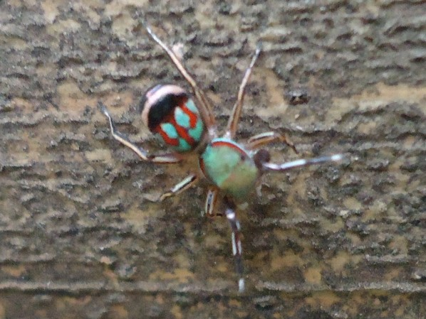 Siler semiglaucus in the Philippines.